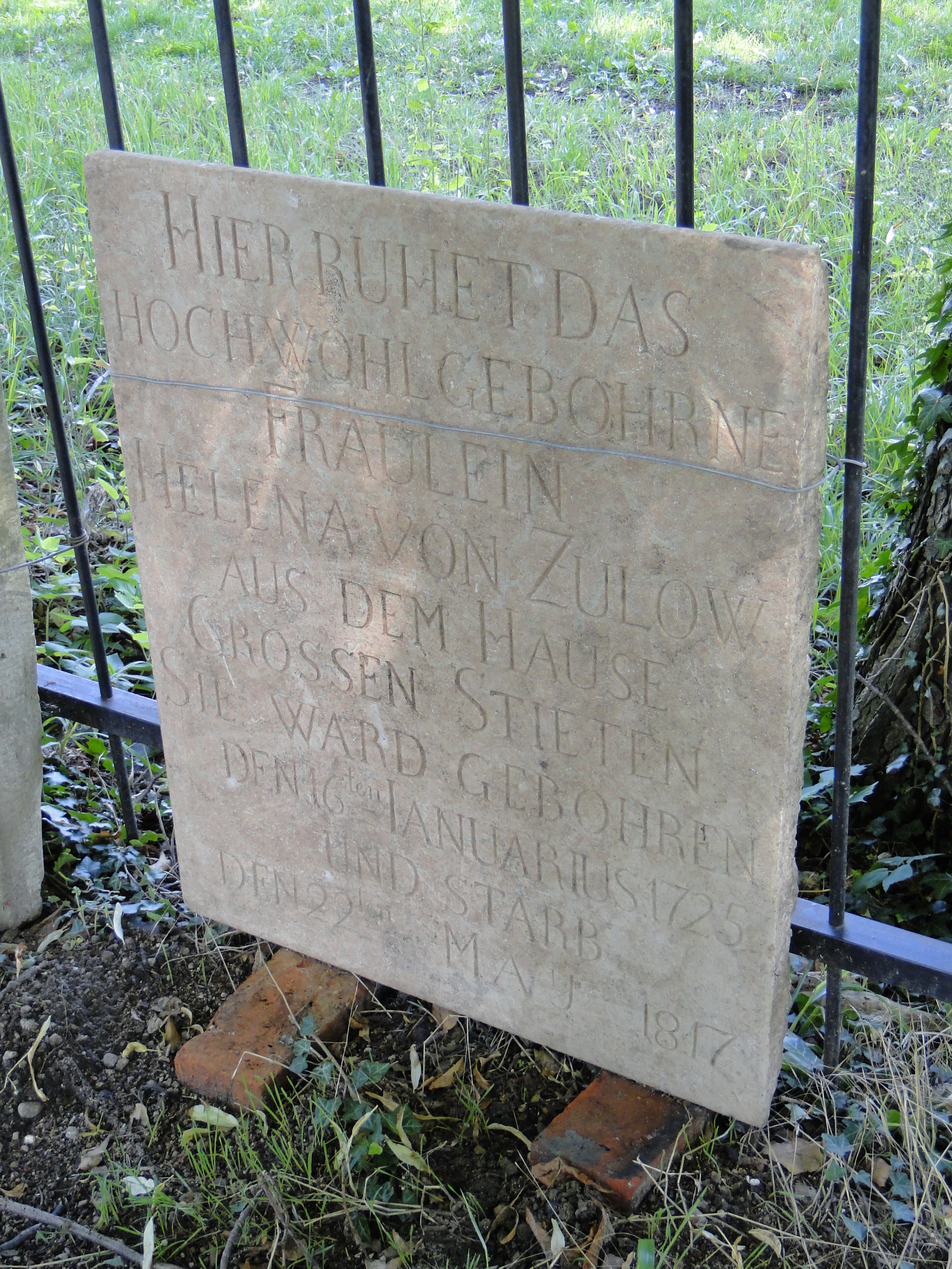 Cemetery of Monastery in Dobbertin, district Parchim, Mecklenburg-Vorpommern, Germany